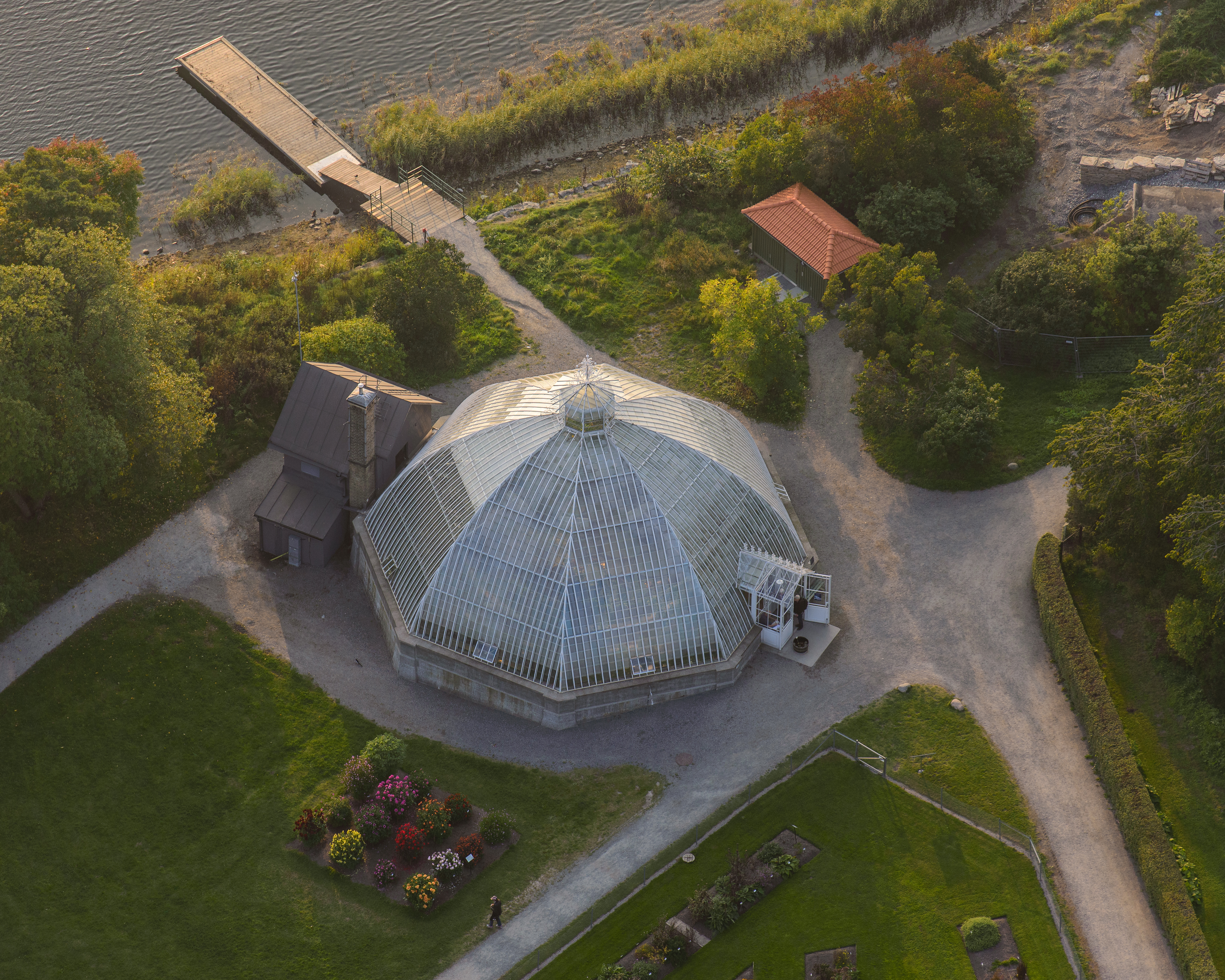 The Victoria house at Bergius Botanic Garden, Stockholm.